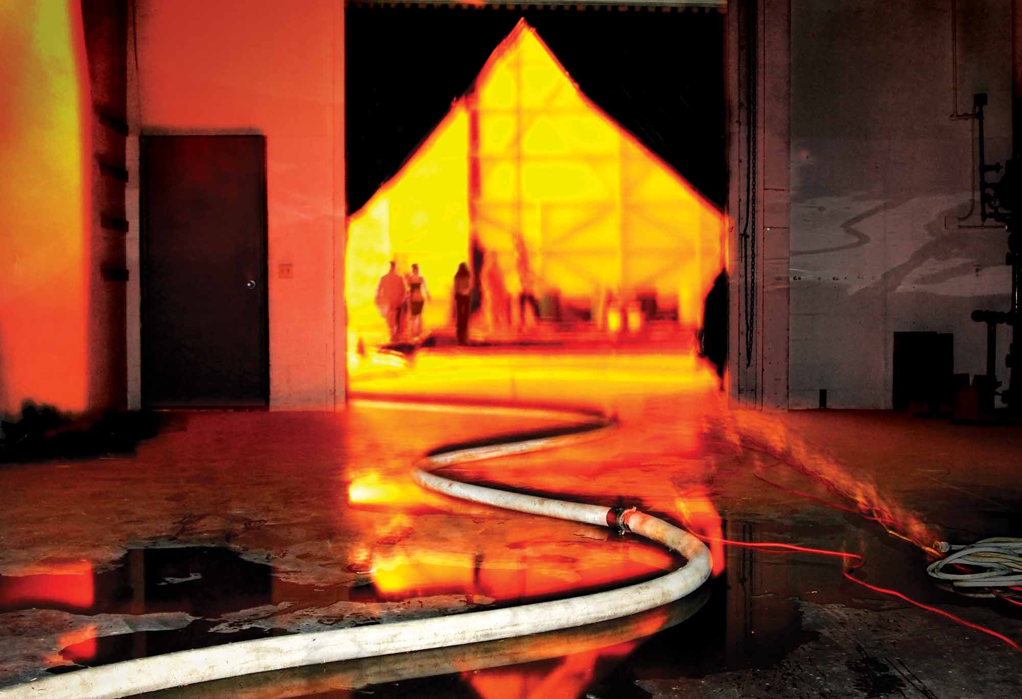 The photograph was washed using fire hoses attached to two fire hydrants.